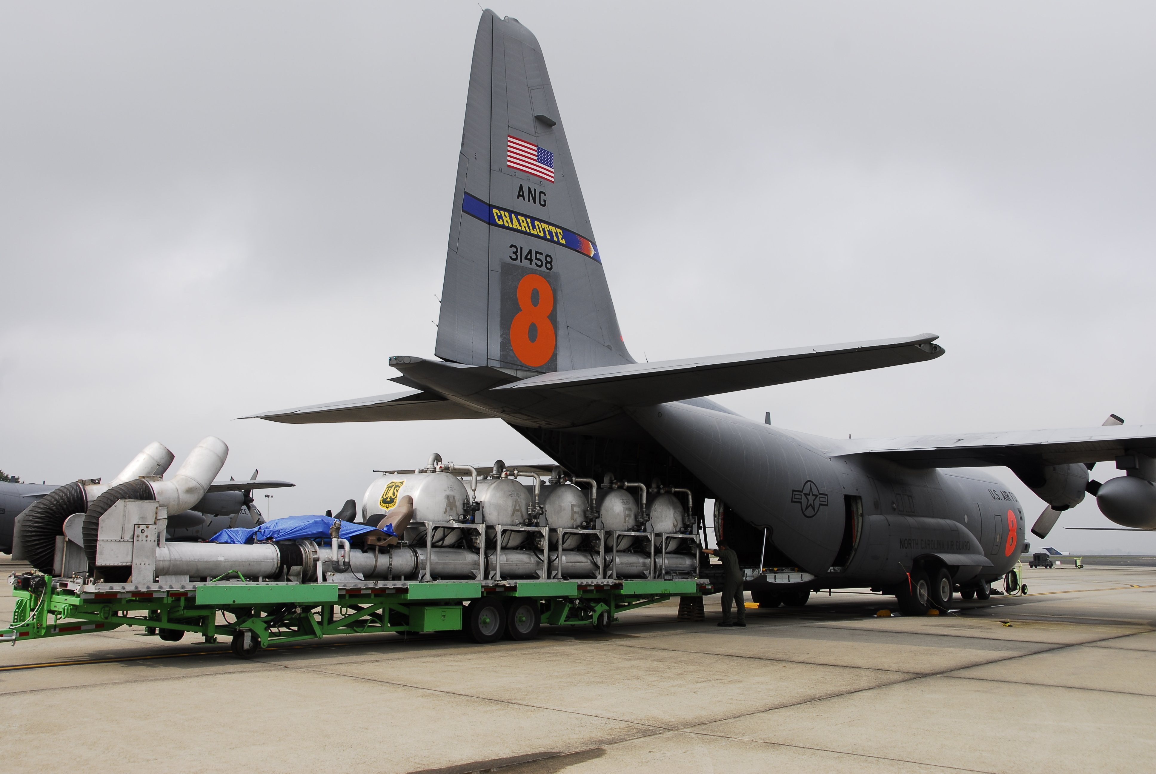 080623-F-7564C-071 Flight line personnel prepare to insert a Modular Airborne FireFighting System unit into a C-130 Hercules aircraft assigned to the 145th Airlift Wing, North Carolina Air National Guard prior to its departure from Charlotte, N.C., June 23, 2008, for Northern California to combat wildfires. The pressurized tank system holds 3,000 gallons of flame-retardant liquid, which can be discharged in less than five seconds. The North Carolina Air National Guard has deployed four C-130 aircraft, their crews and various support personnel to Northern California to assist the U.S. Forest Service in containing wildfires in the area. (U.S. Air Force photo by Tech. Sgt. Brian E. Christiansen/Released)